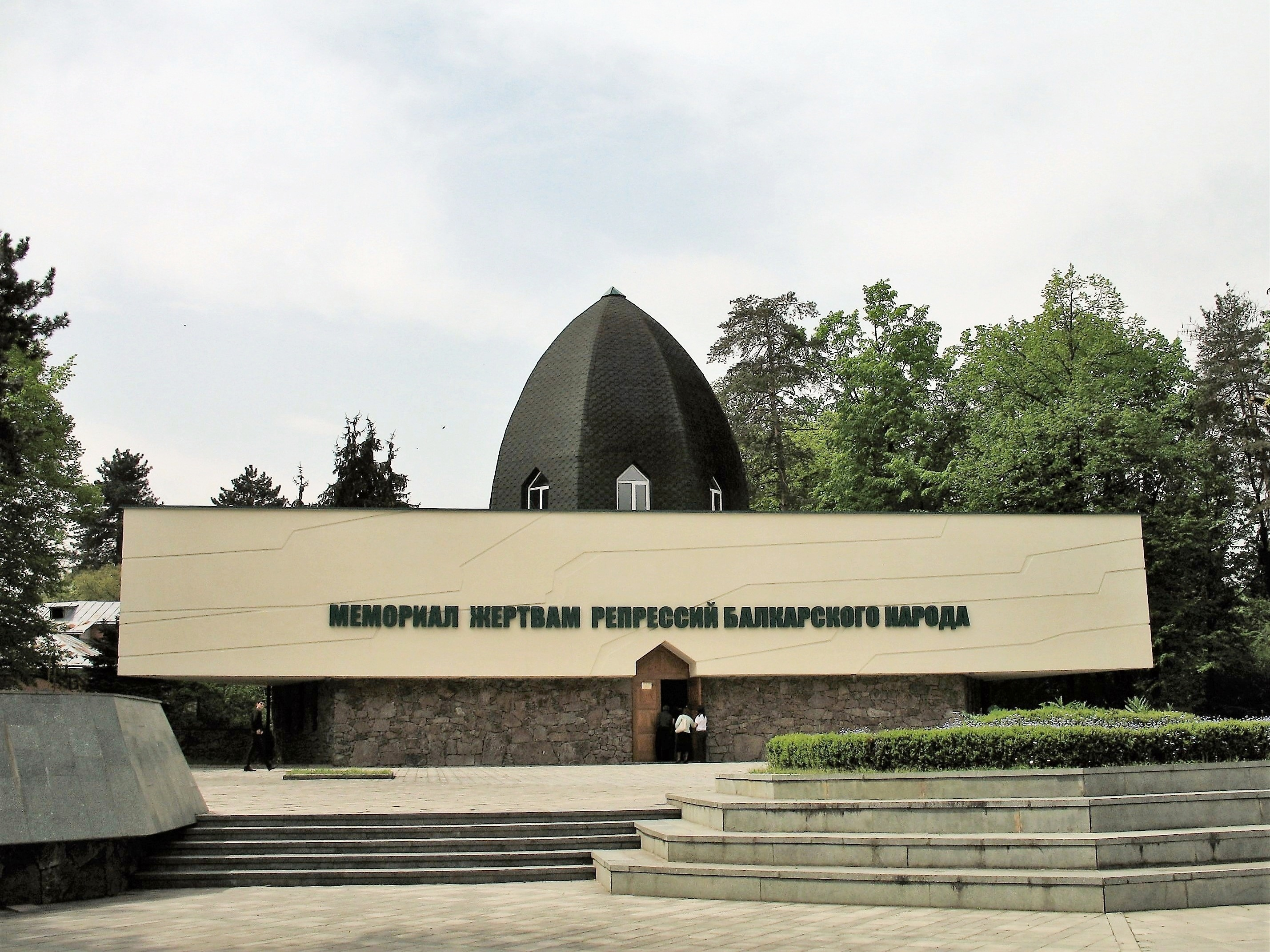 Victims of Deportation Memorial, Nalchik, Kabardino-Balkaria